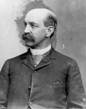 Caseylyman